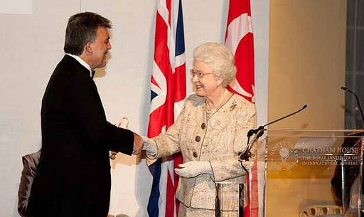 Turkish President Abdullah Gül accepts the 2010 Chatham House Prize from HM The Queen.